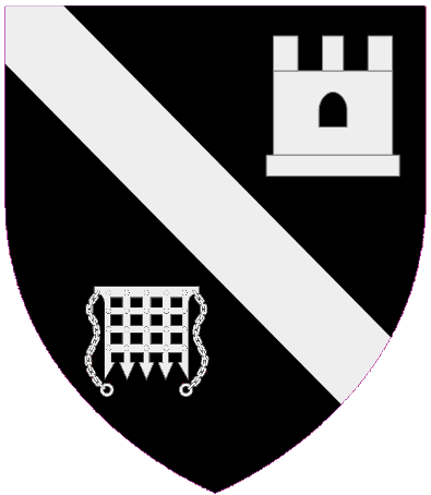 Shield of arms of The Lord Plunket